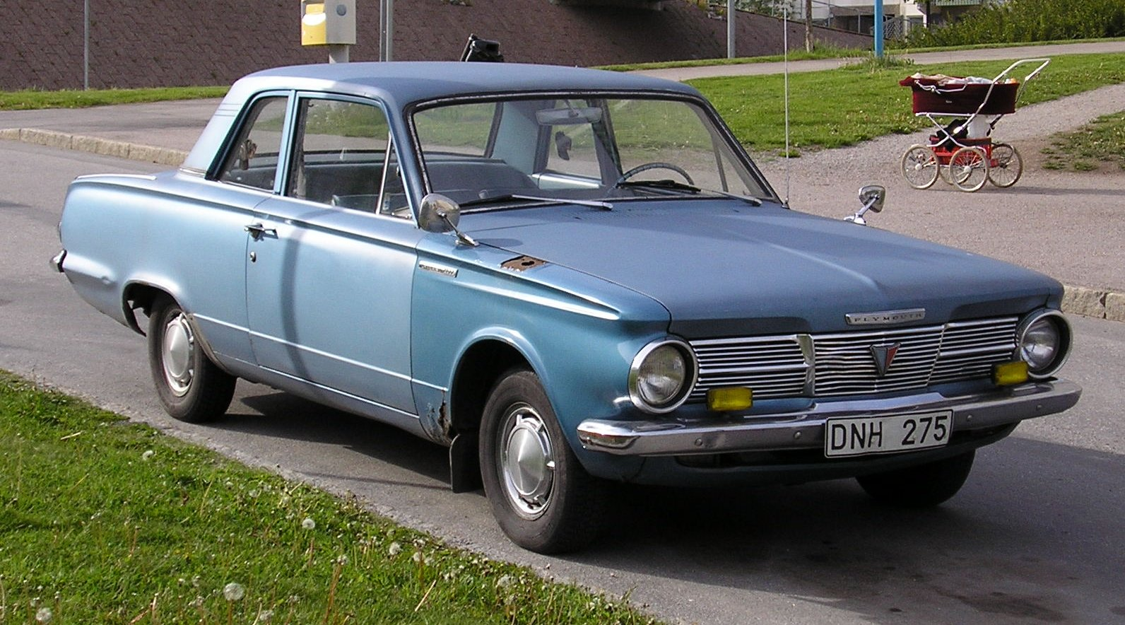 A 1965 Plymouth Valiant V-100. Photographed in Stockholm, Sweden 2005.